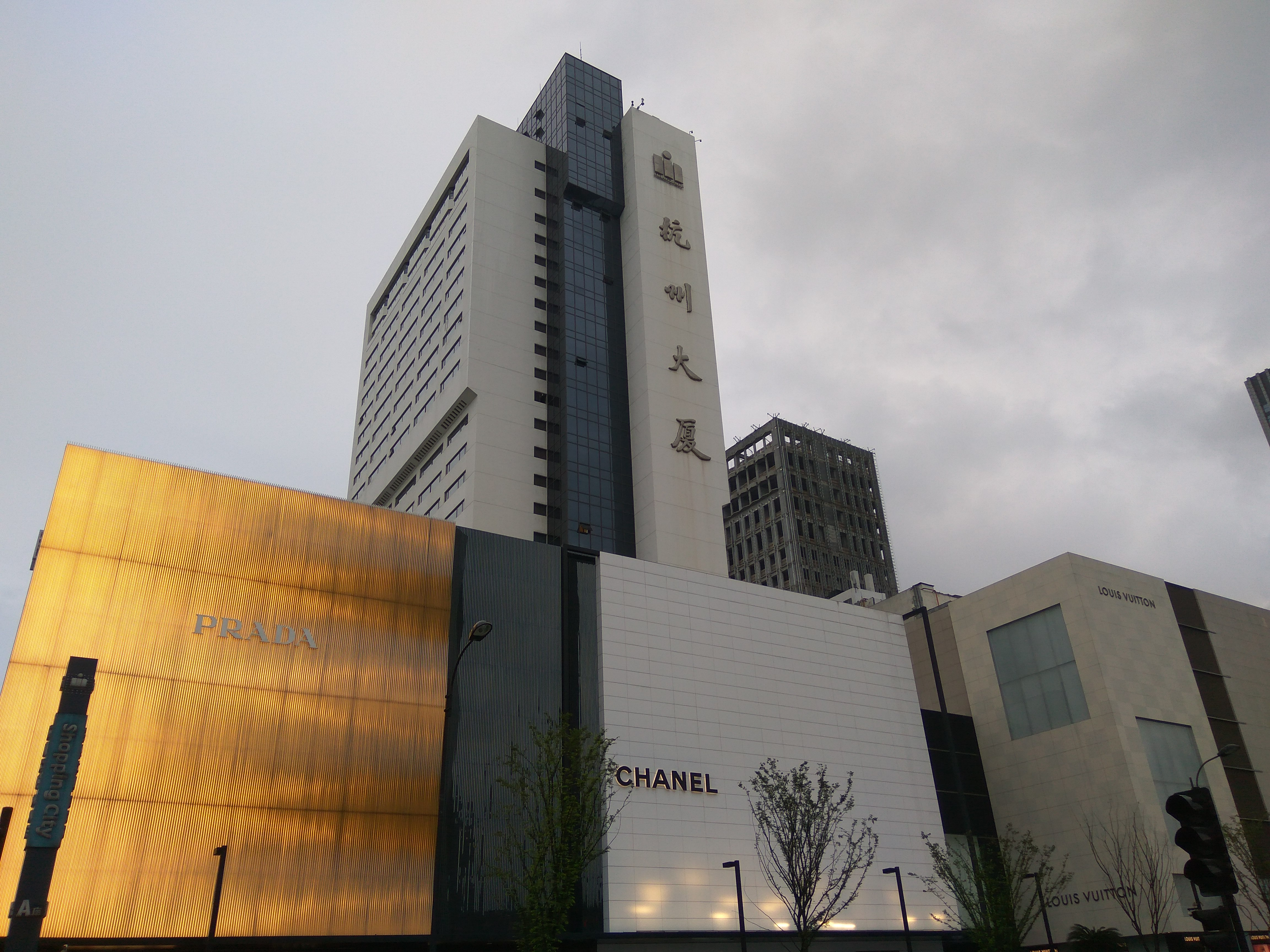 201607 Hangzhou Tower